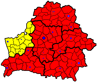 Map of Oblast Grodno in Belarus with district-level subdivisions